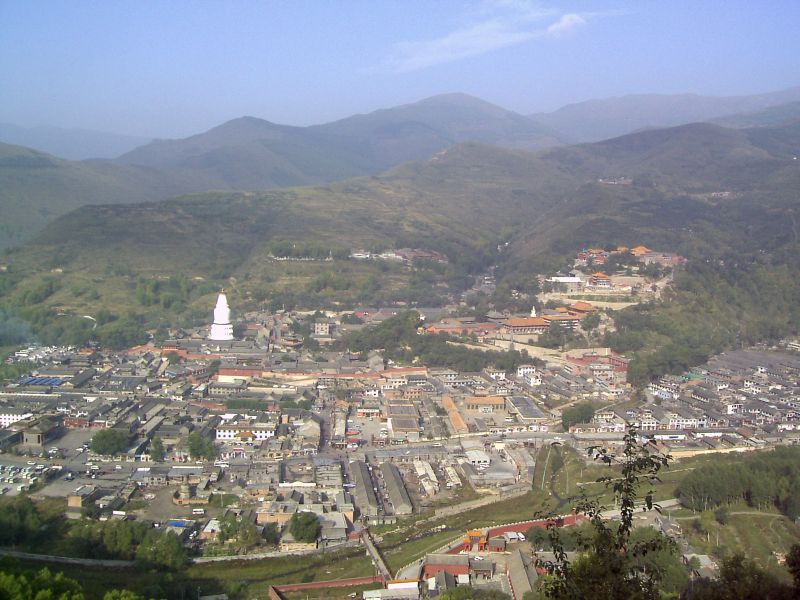 Taihui, Wutai Shan source owne.